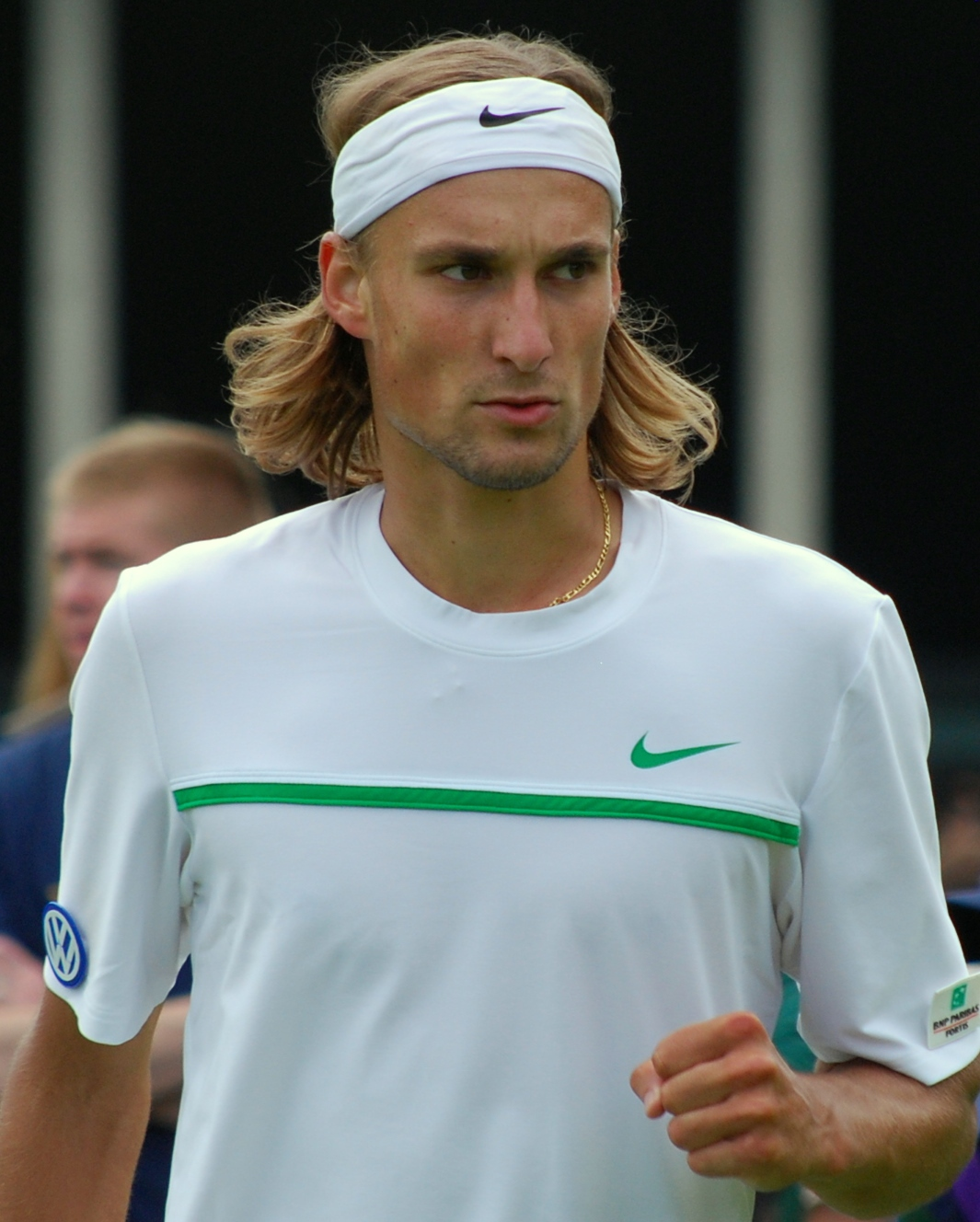 Ruben Bemelmans celebrates winning a point during his first round match with Julien Benneteau. Benneteau won 6-4, 6-2, 3-6, 4-6, 6-1. Day 1 of Wimbledon 2011.